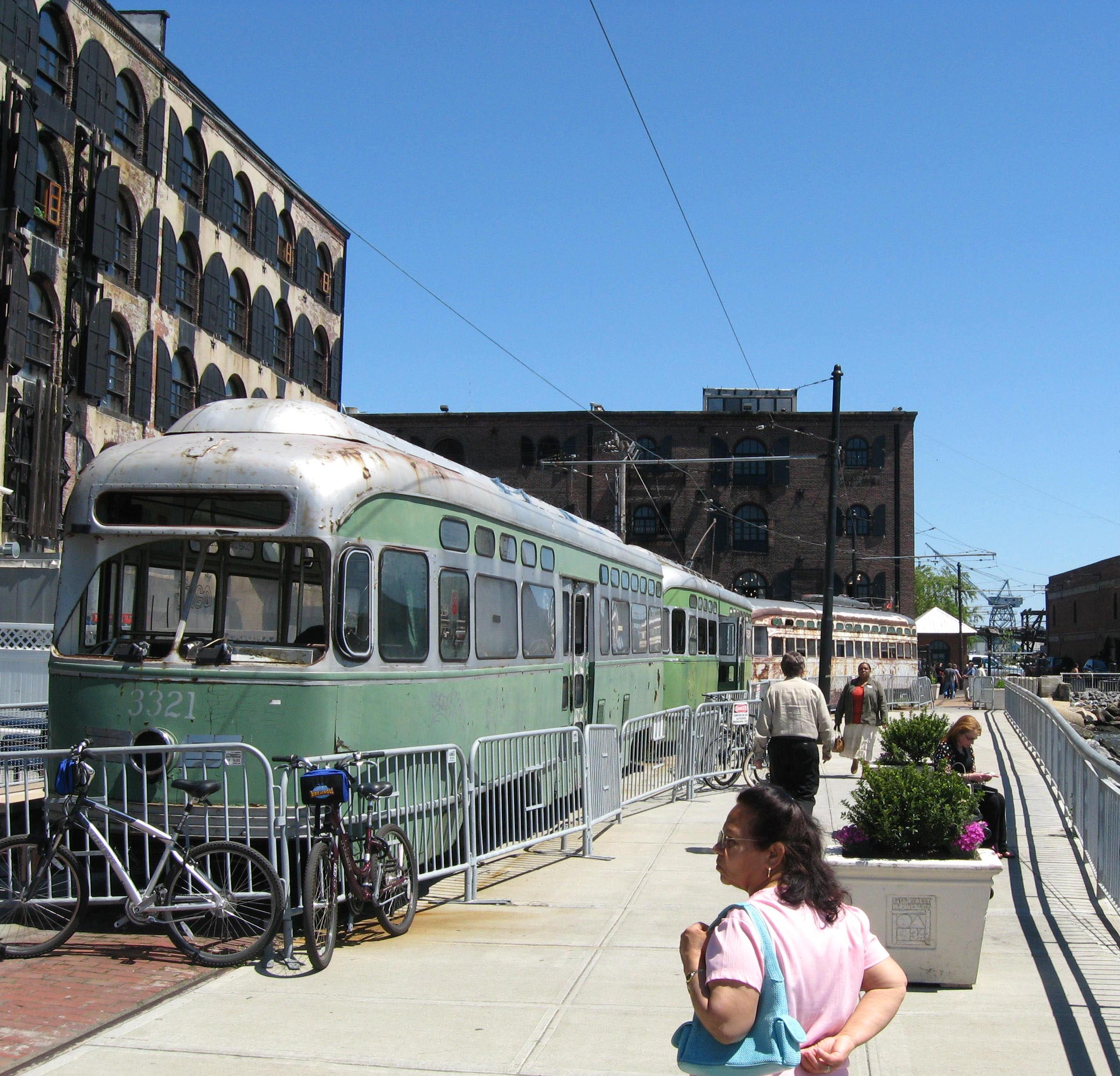 Looking southeast at BHRA trolleys in Red Hook, Brooklyn on a sunny summer midday